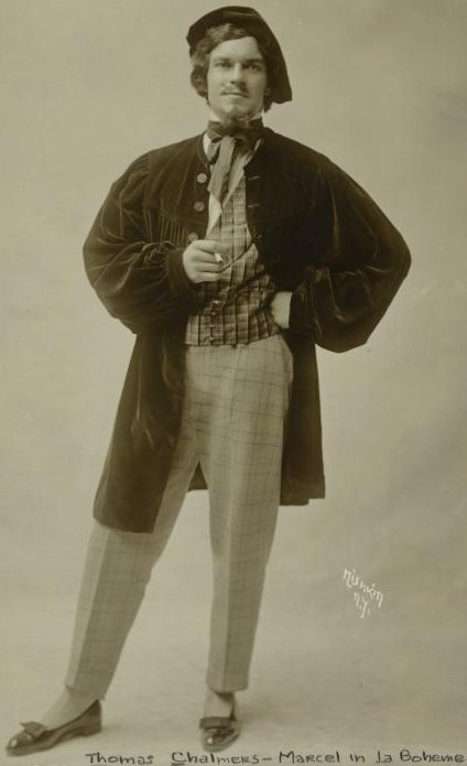 Thomas Chalmers (baritone) : Marcel in La Boheme (cropped - original image : see source)